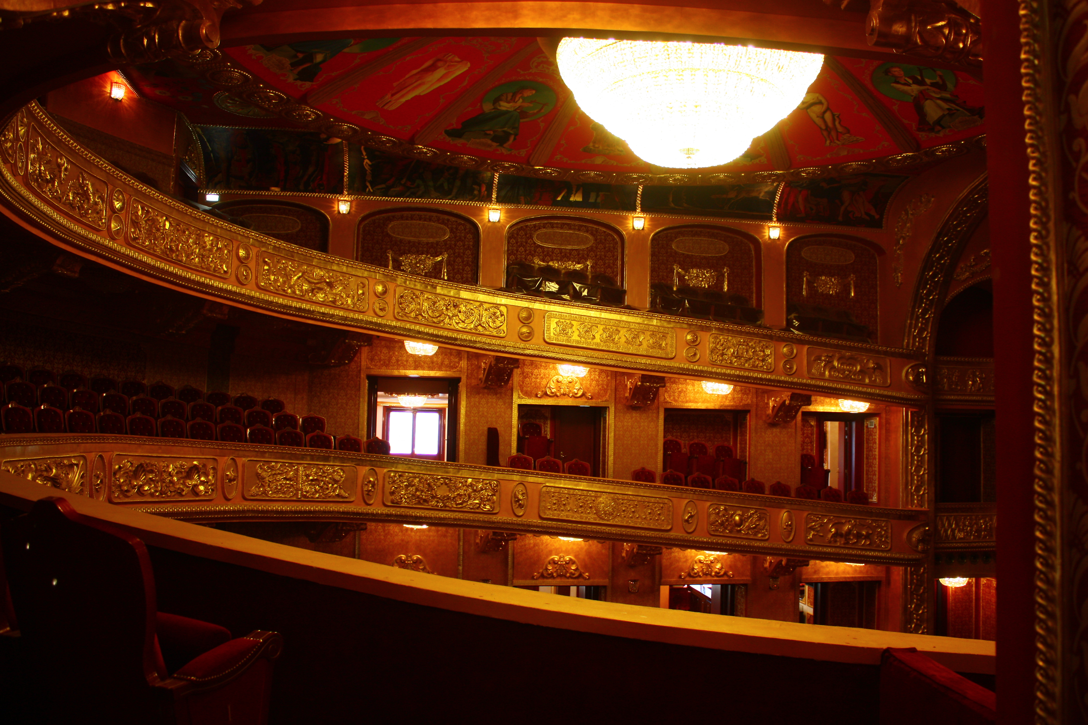 Macedonian National Theatre in Skopje , Macedonia